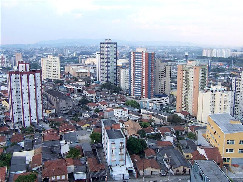 Photo of Osasco. Taken by me.